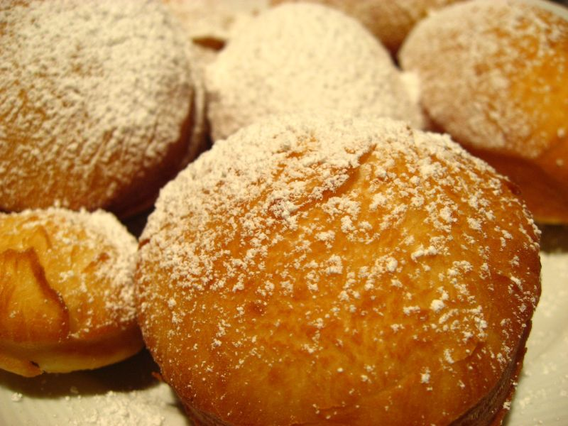 Beignet...oh my...ridiculousness how magically these are. Melt in your mouth.